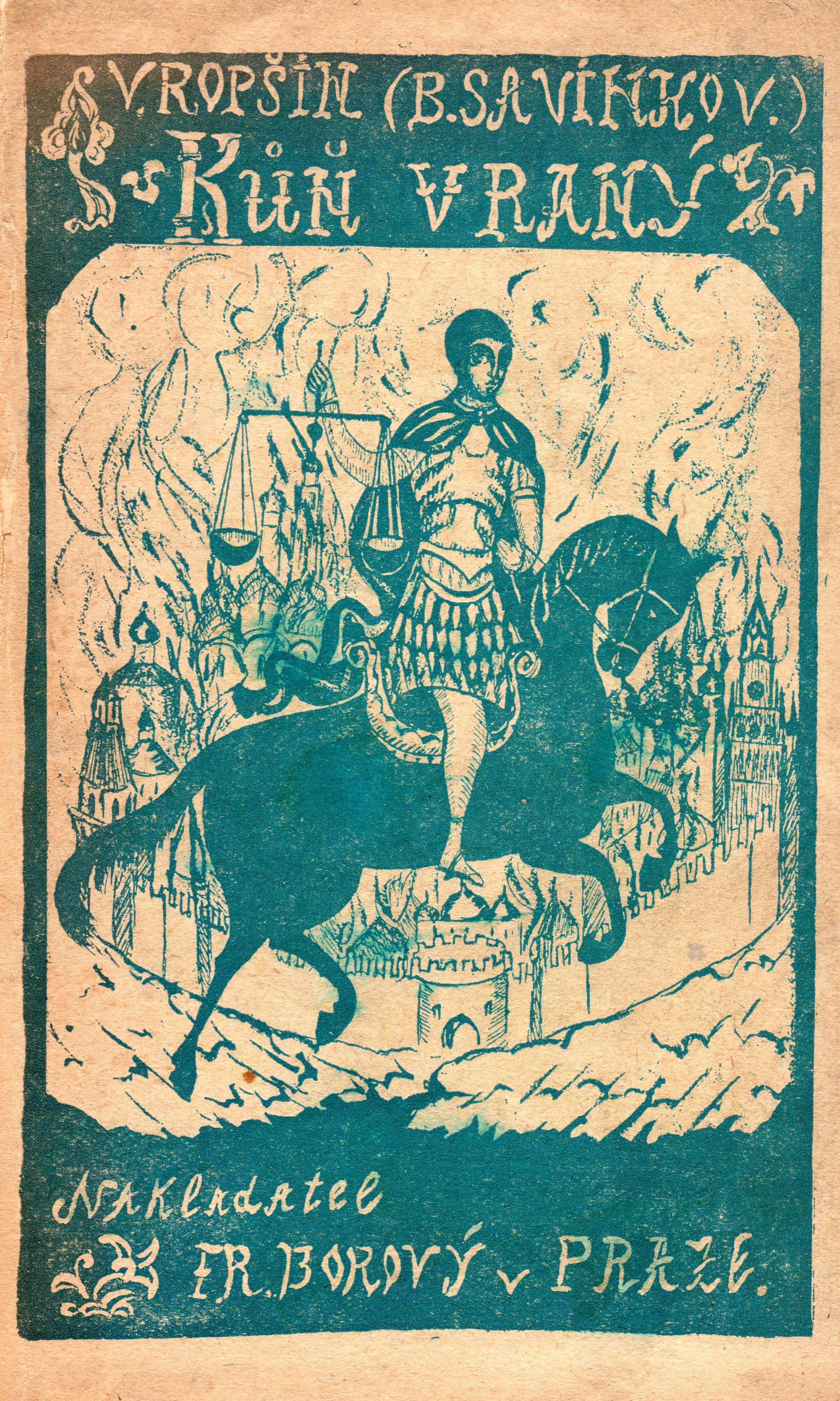 Cover of a book "Kůň vraný", 1923, Czech translation